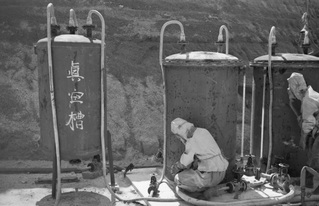 OKUNOSHIMA, JAPAN. 1946-08-03. MEASURING TANK FOR MUSTARD GAS AT WHAT WAS FORMERLY THE TADANOUMI BRANCH OF THE TOKYO 2ND ARMY ARSENAL. THE TANK HAS A CAPACITY OF 1 1/2 TONS AND IS CALIBRATED TO TRANSFER ONE TON AT A TIME. UNDER THE DIRECTION OF MAJOR W. E. WILLIAMSON, CHEMICAL WARFARE SECTION, UNITED STATES ARMY, A JAPANESE LABOURER IN PROTECTIVE CLOTHING IS ADJUSTING A VALVE ON THE GAS INLET PIPE. A VACUUM ACCUMULATOR AND VACUUM TRANSFER SYSTEM CAN BE SEEN AT THE RIGHT.